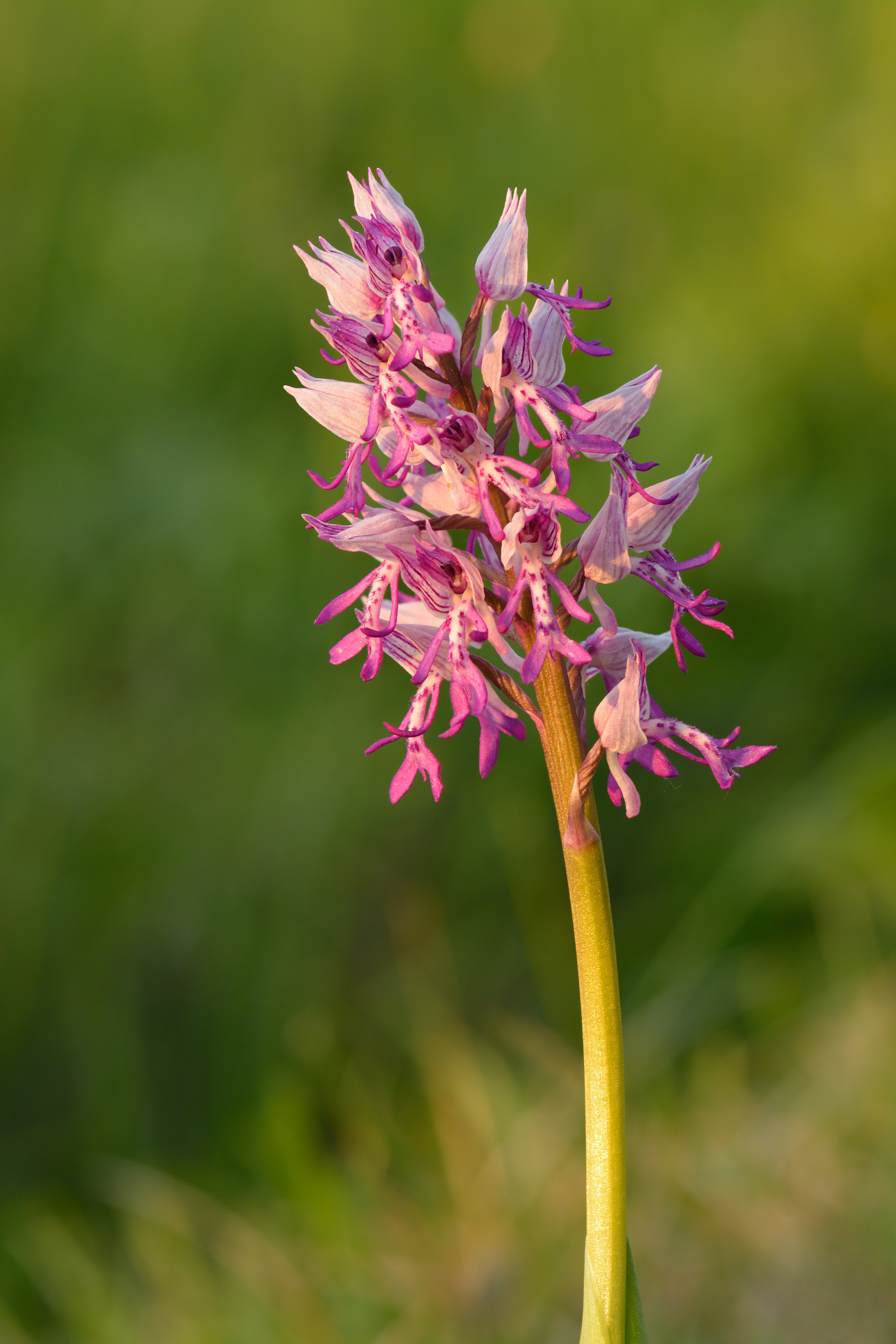 Military orchid. Flower size (width × height) ca 8×16 mm